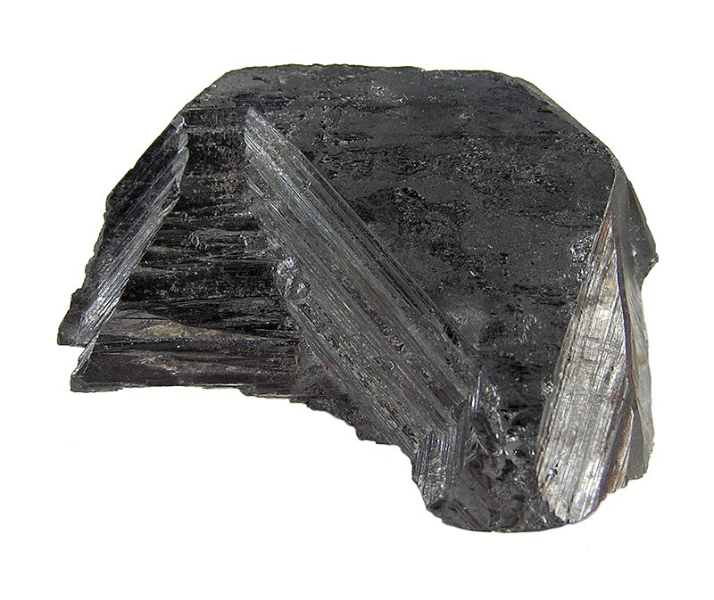 Ferrocolumbite Locality: Epping, Rockingham County, New Hampshire, USA (Locality at ) Size: miniature, 4.9 x 3.8 x 1.8 cm Columbite One of the things that has made the Hauck collection so interesting is all the old classic minerals from sites long ago lost or closed. Another in this series is this historic crystal from the old mining district near Epping. This single, well-terminated crystal has great form. There are also a couple of contacts which have interesting growth lines on the front and side of the crystal. Ex. Richard Hauck Collection.